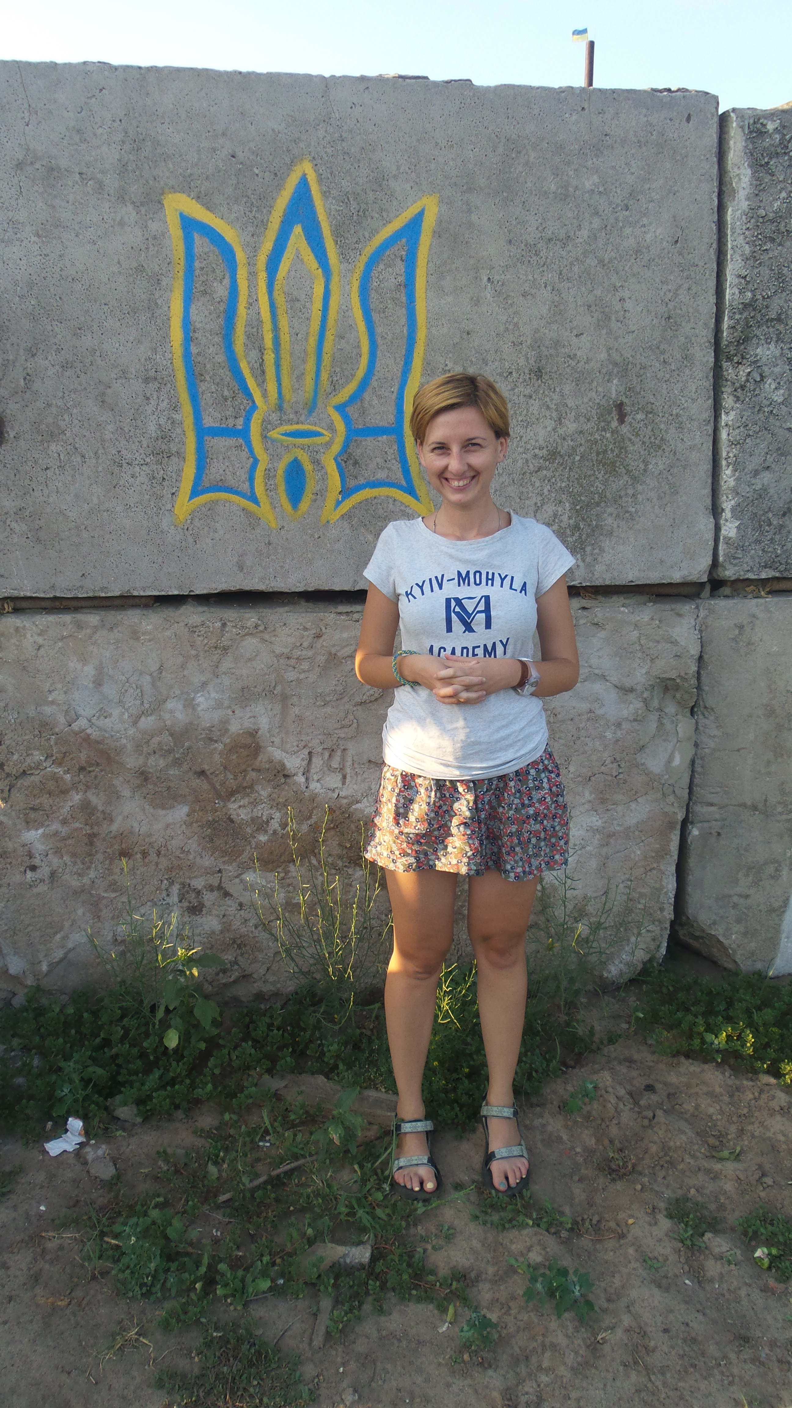 Nastya Stanko at Aidar, Lugansk region